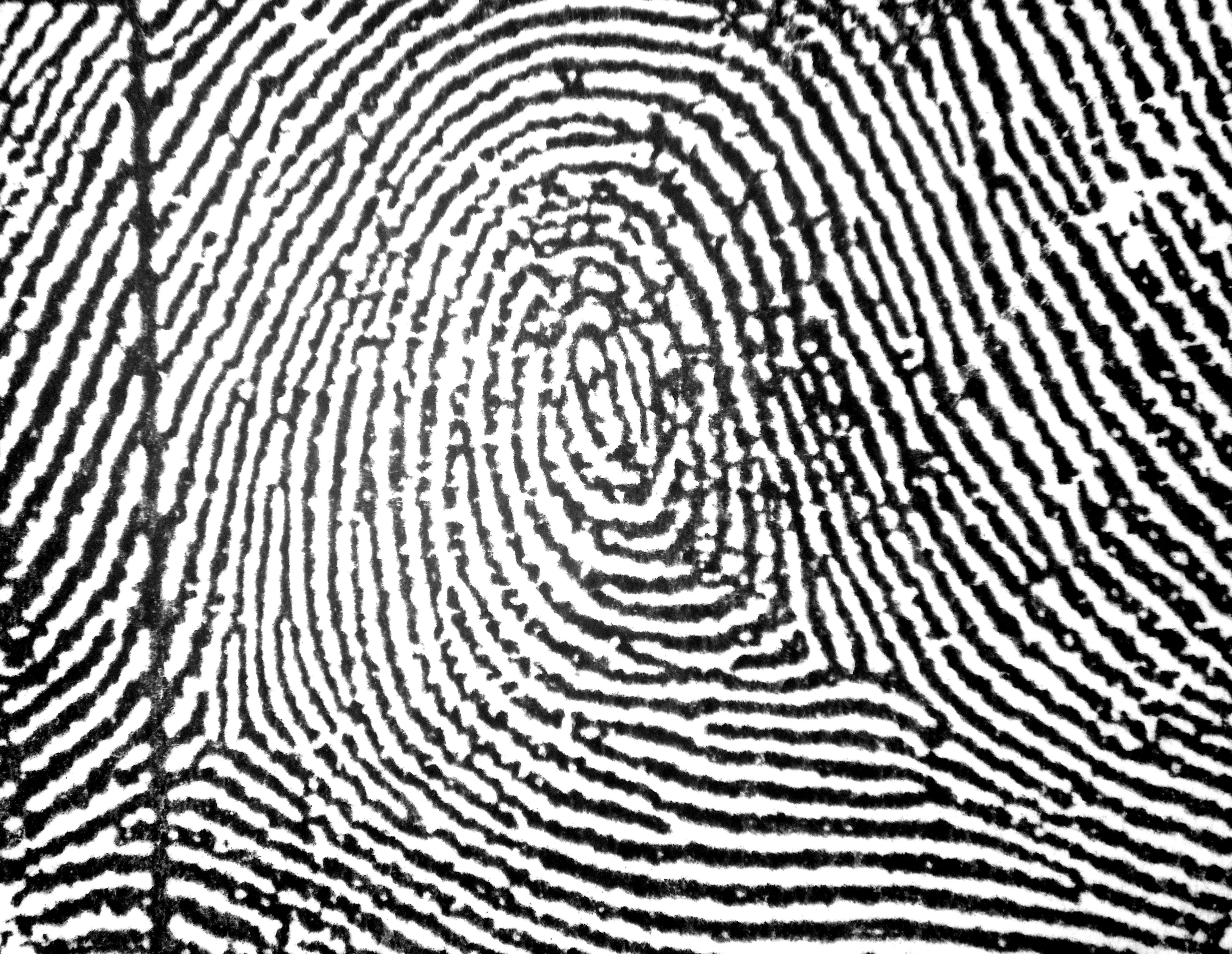 Central Pocket Loop Whorl